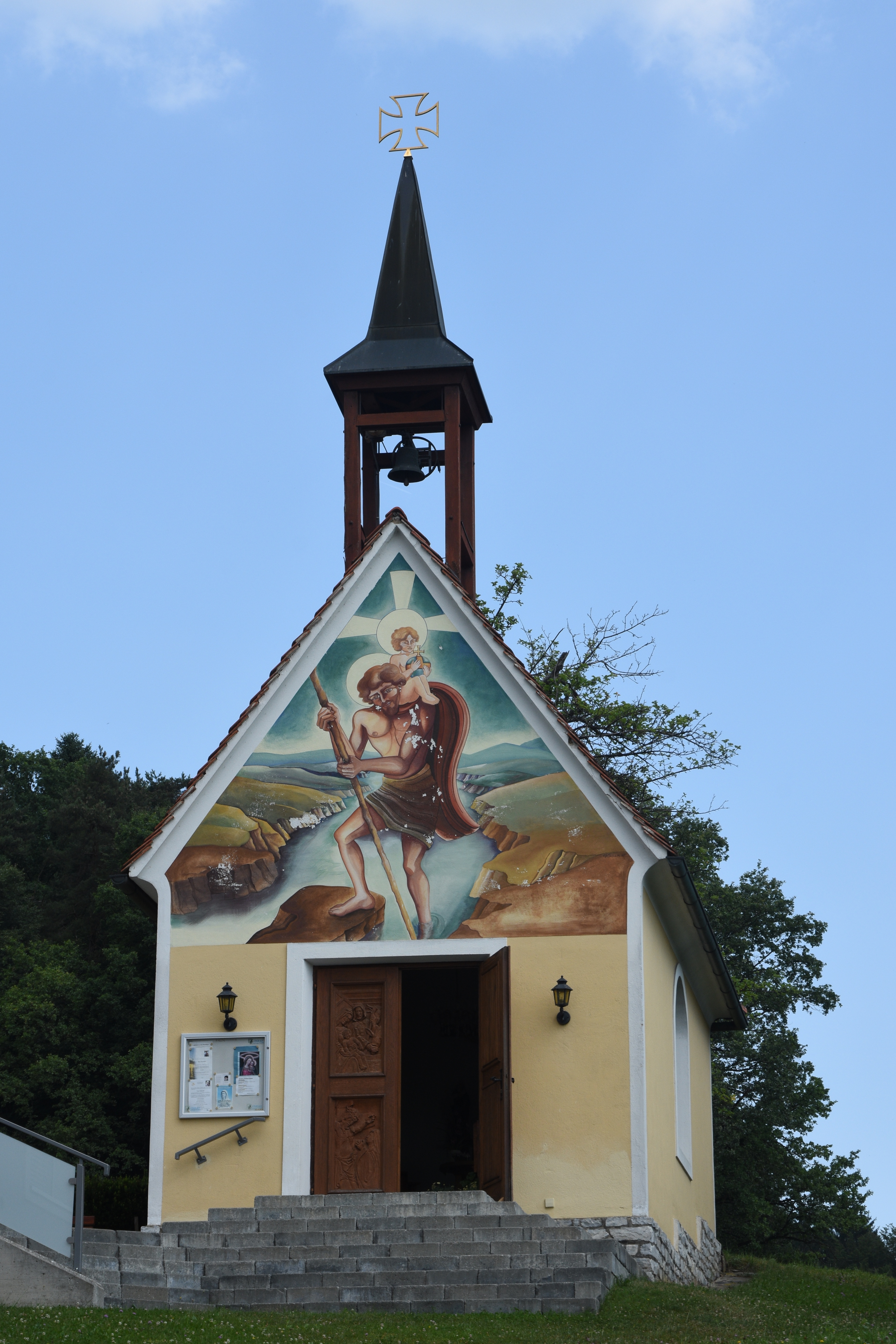 Chapel Liebensdorf